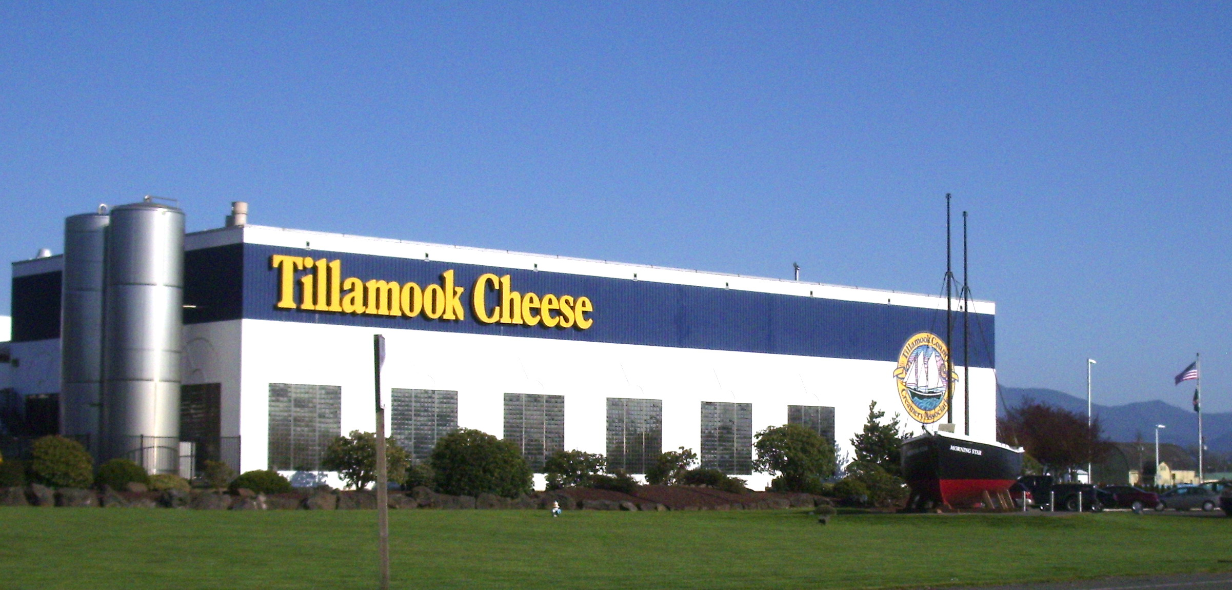 Exterior of the Tillamook County Creamery Association processing plant from Hwy 101 just north of Tillamook, Oregon